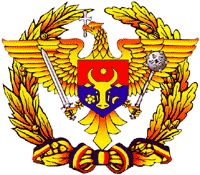 a crossed golden eagle witha a shield on its chest